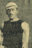 Edoardo Bosio (1864-1927) was an Italian-Swiss footballing innovator from Turin. He is a prime figure in the history of Italian football as evidence exists to show that he founded the earliest football club in the country; Torino Football and Cricket Club. He was also a clever rower of the Armida Rowing Club in Turin.